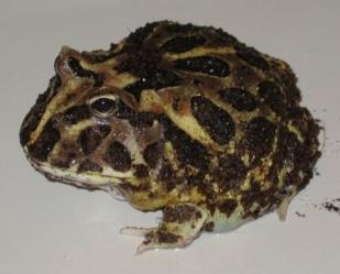 Side view of Cranwell's horned frog